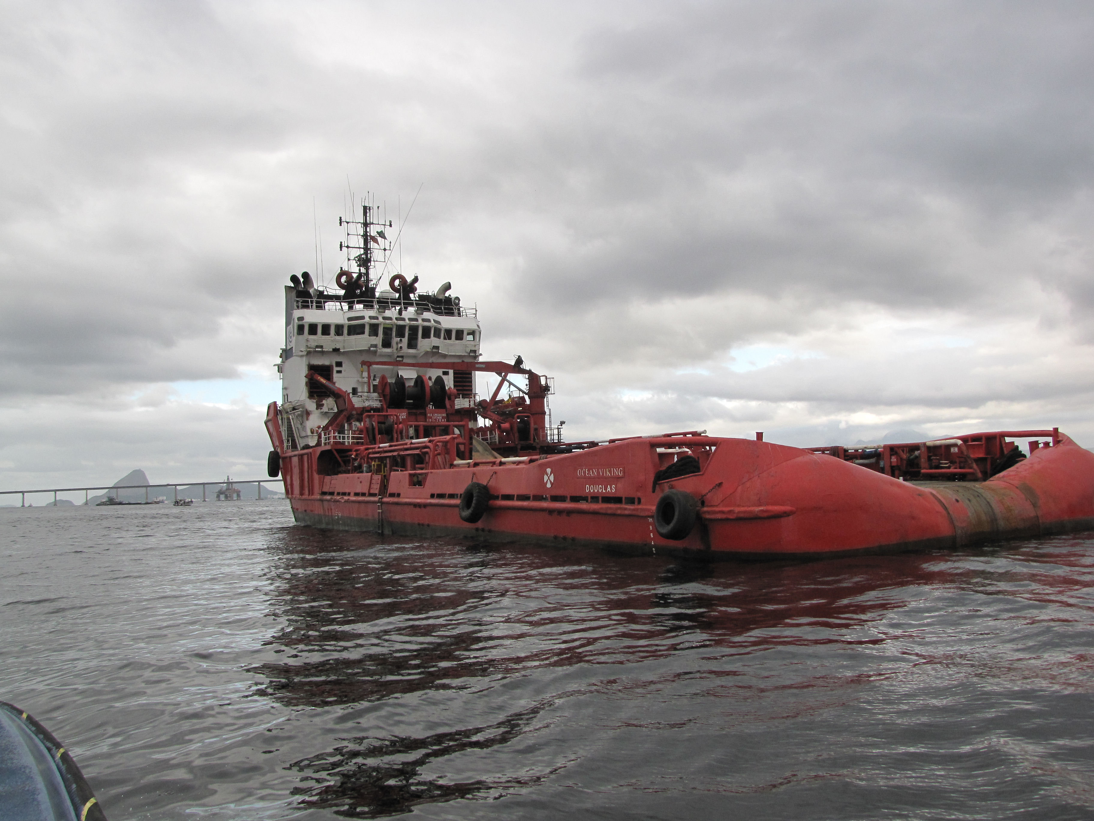 Platform supply vessel Ocean Viking (1983).